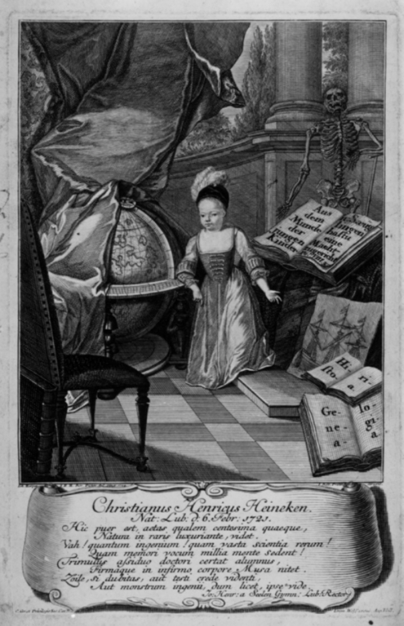 Portrait of Christian Heinrich Heineken (1721-1725)